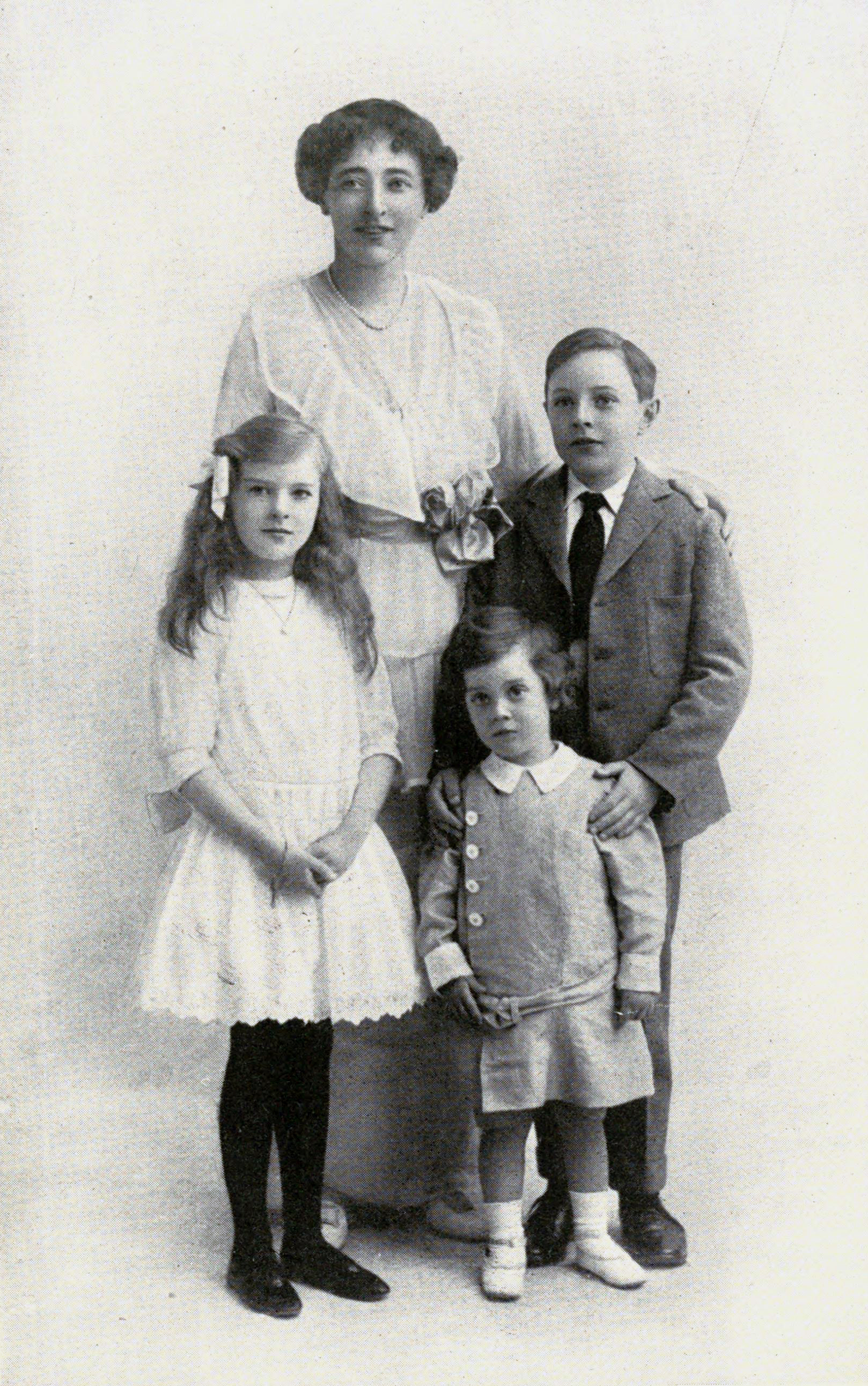 Lady Emily Shackleton with her three children.